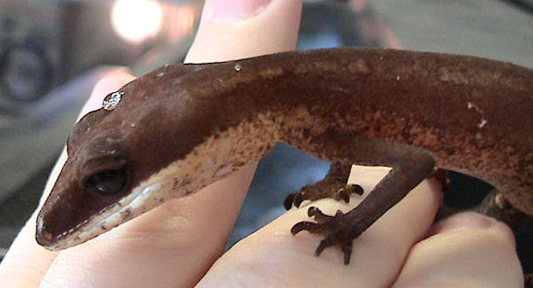 Imported from en: Original description: Photographer: LA Dawson Cat Gecko, Aeluroscalabotes felinus (a gecko).